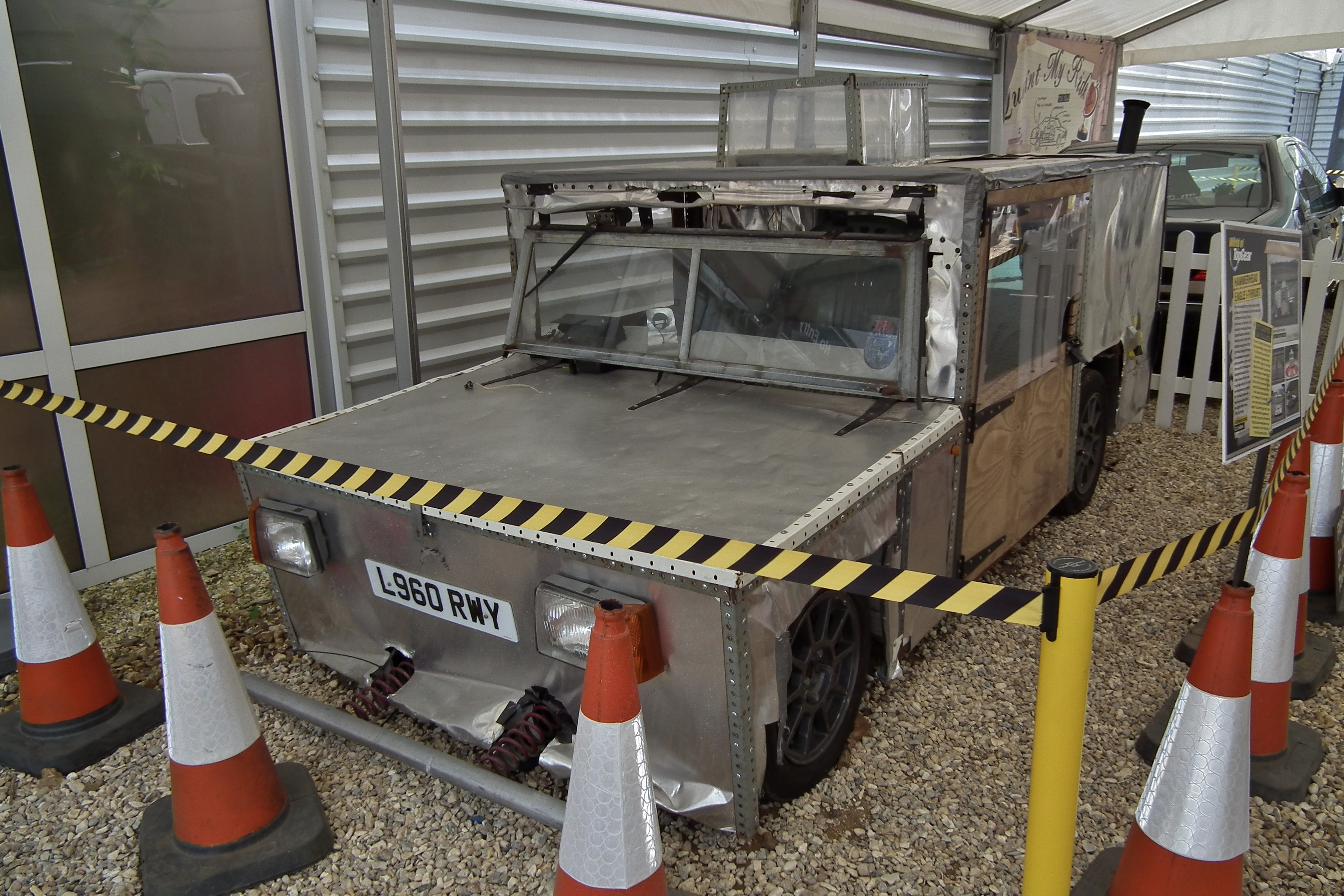 Hammerhead Eagle I-Thrust electric car . Built by Jeremy, Richard & James for the Top Gear electric car challenge. Part of the World of Top Gear exhibition. Taken at the National Motor Museum in Beaulieu, Hampshire, England.